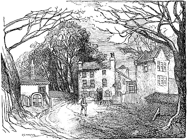 "The Spaniards,Hampstead Heath". from The Old Inns of Old England, Volume I (of 2), by Charles G. Harper page 323. Illustration by author. Published in London in 1906 by CHAPMAN & HALL, Limited Charles George Harper, (1863 – 1943)